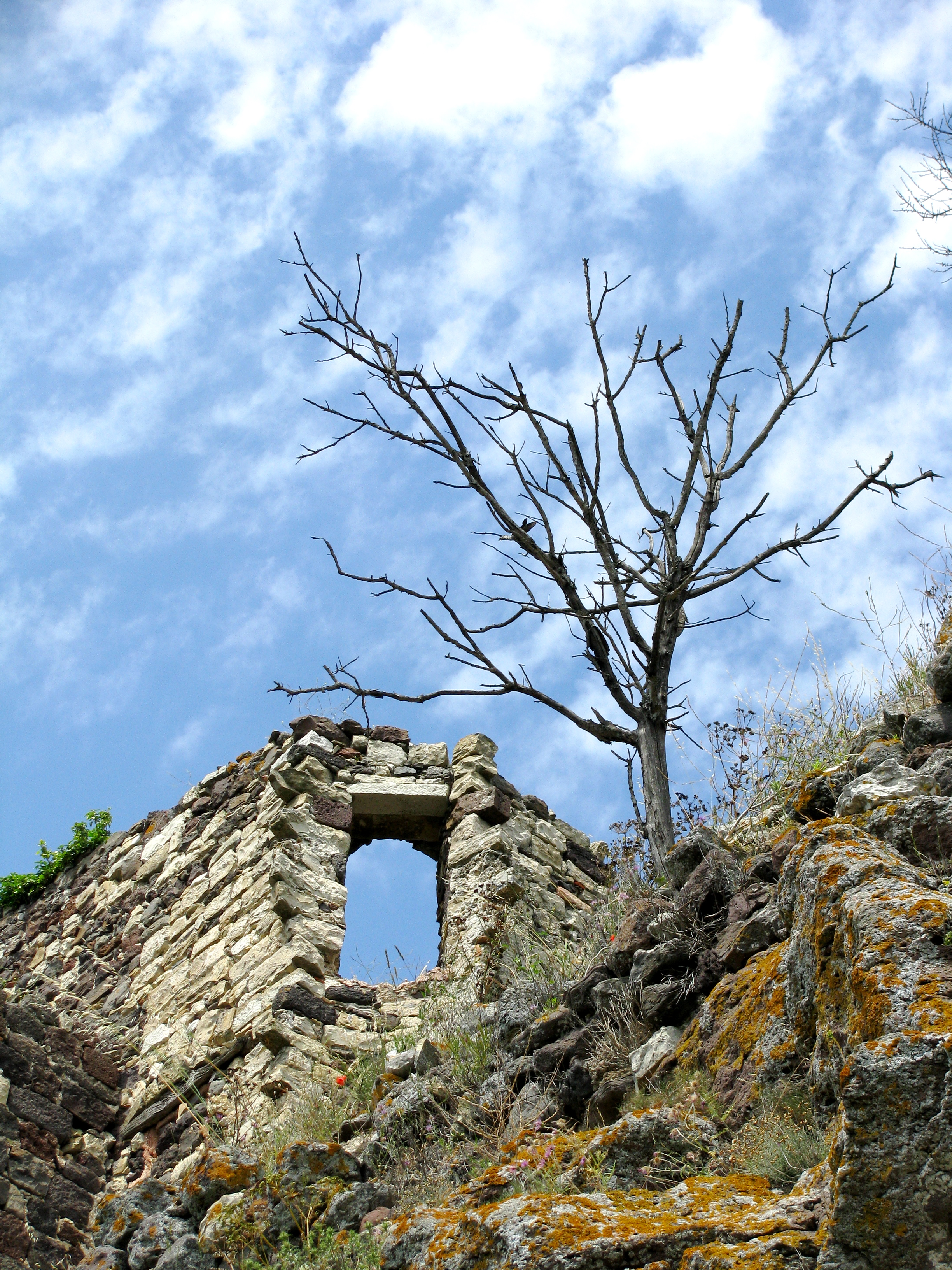 A picture of the castle ruins in Évenos in the Var department of the Provence-Alpes-Côte d'Azur region of France.